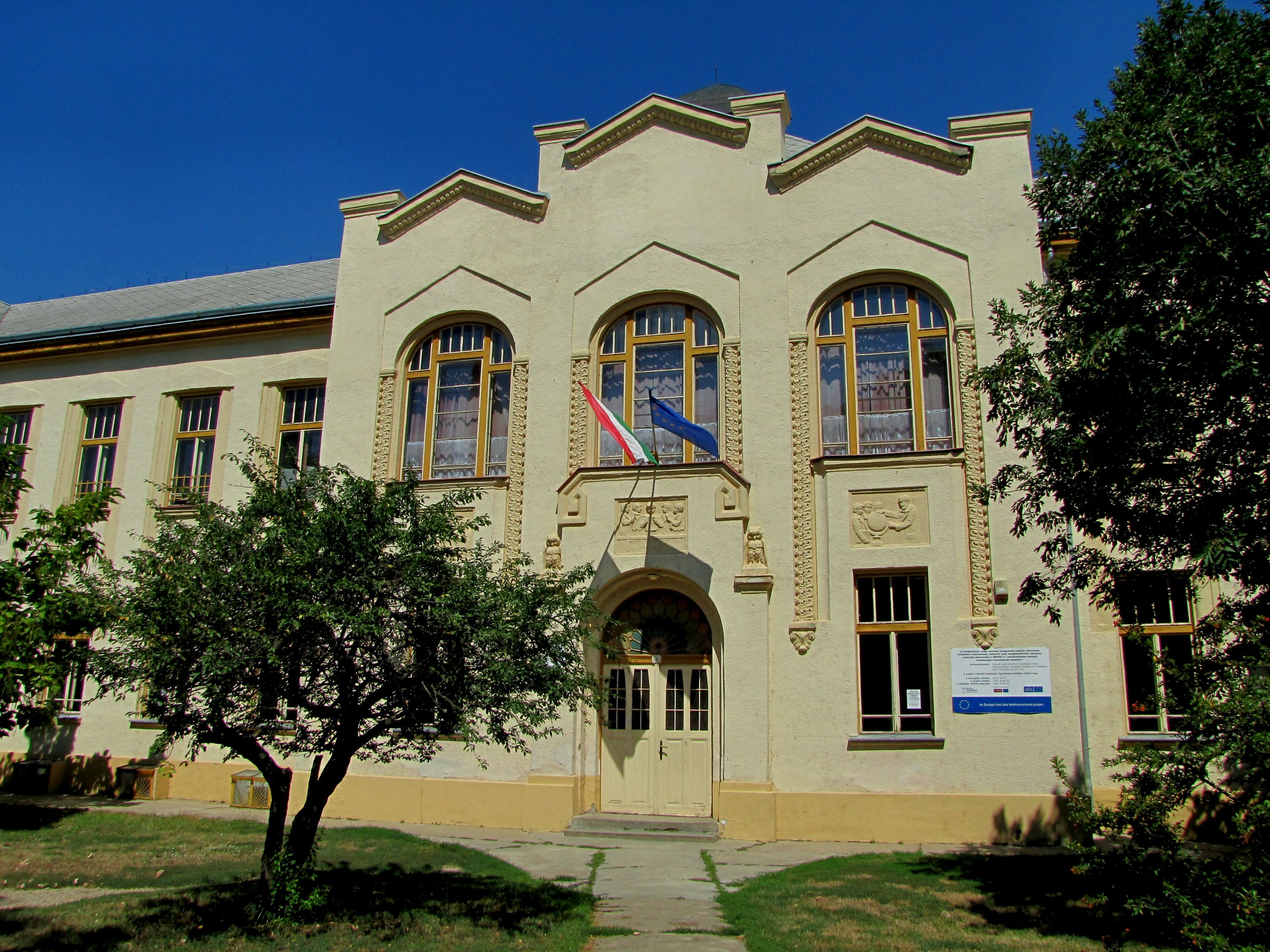 Elementary school, Tiszafüred, Hungary